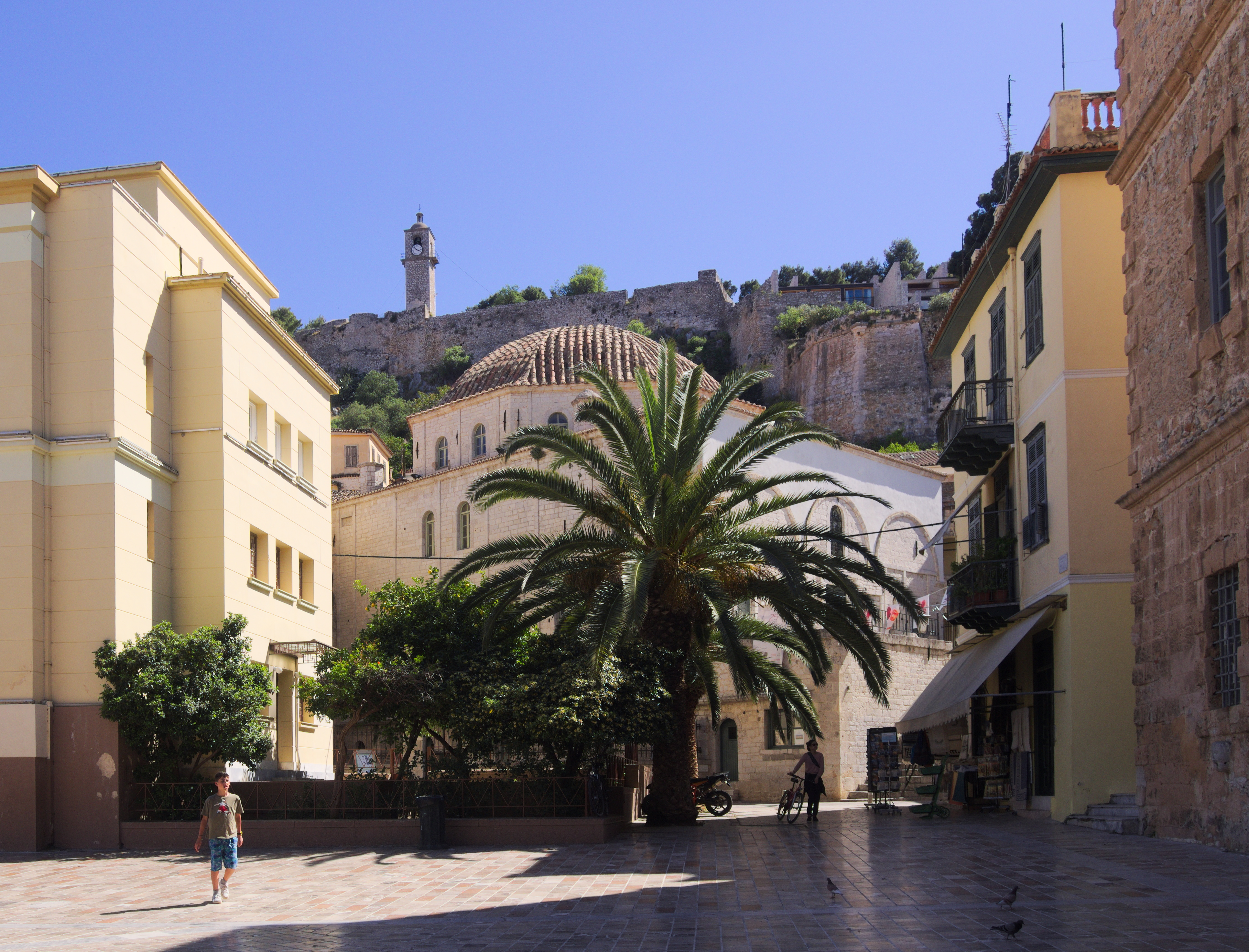 View of Aga Pasha mosque from Syntagma square, at its north.